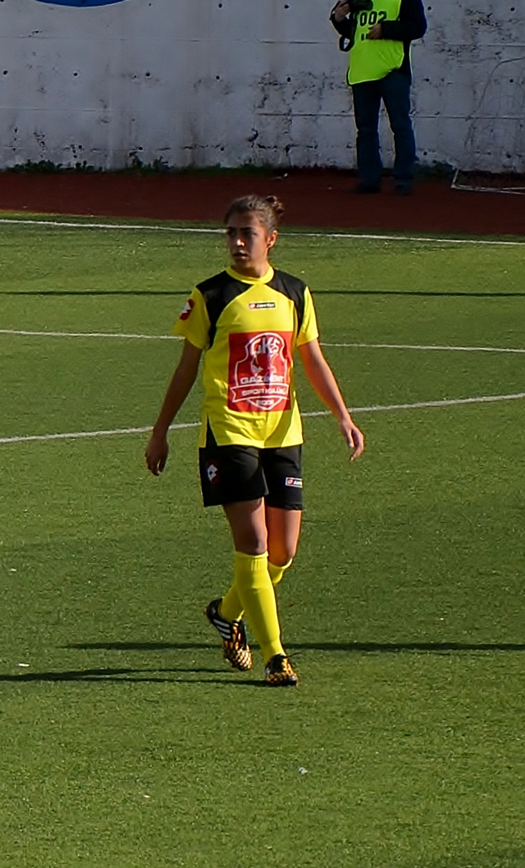 Esma Kevser Aksan playing for Gazikentspor in the 2014-15 away match against Ataşehir Belediyespor..